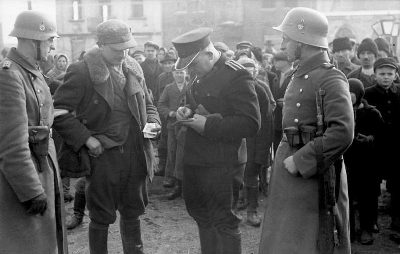 Information added by Wikimedia users.Document control carried out by the police in the Kazimierz district.